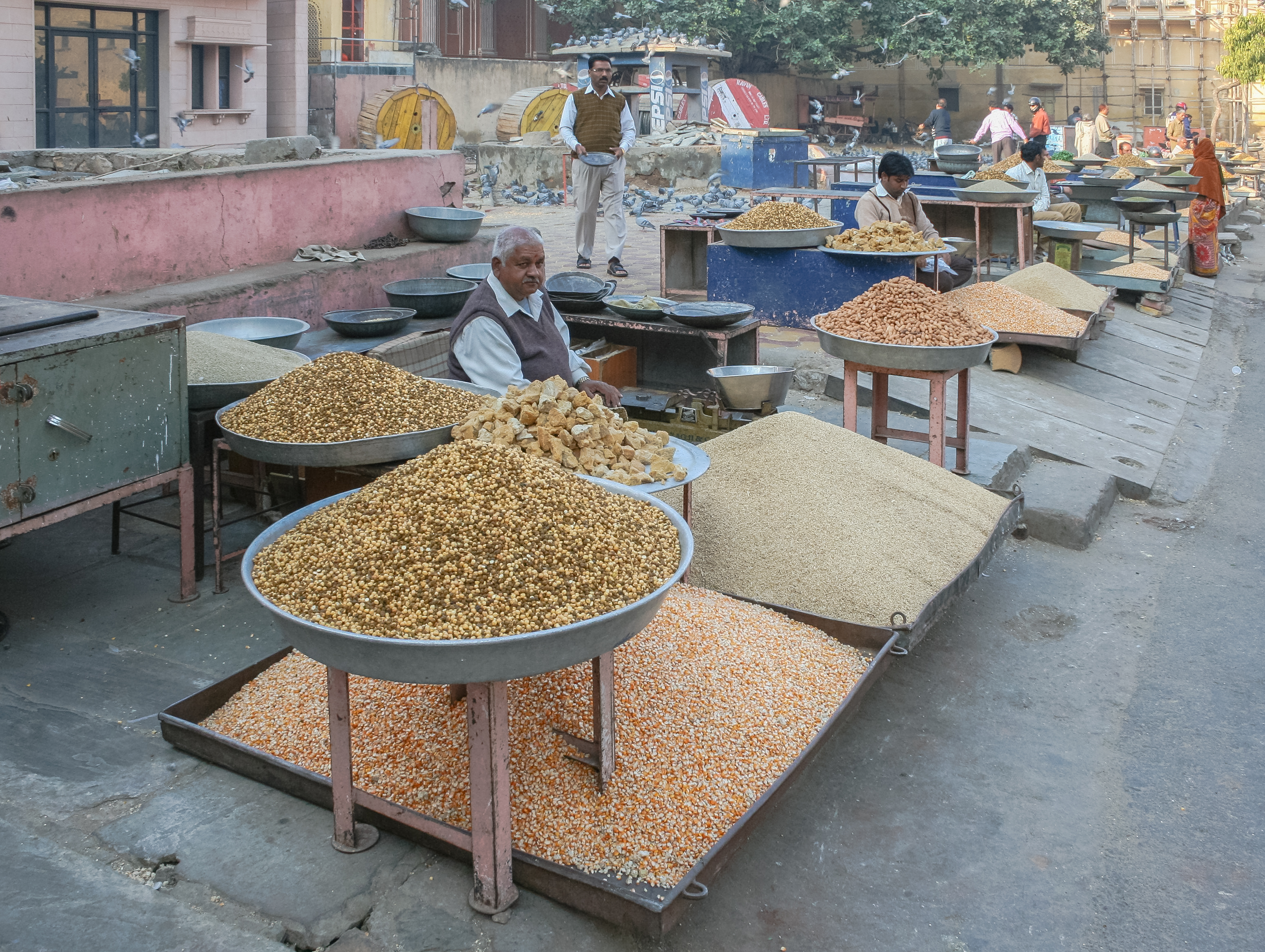 Pigeon food sellers, Jaipur, India